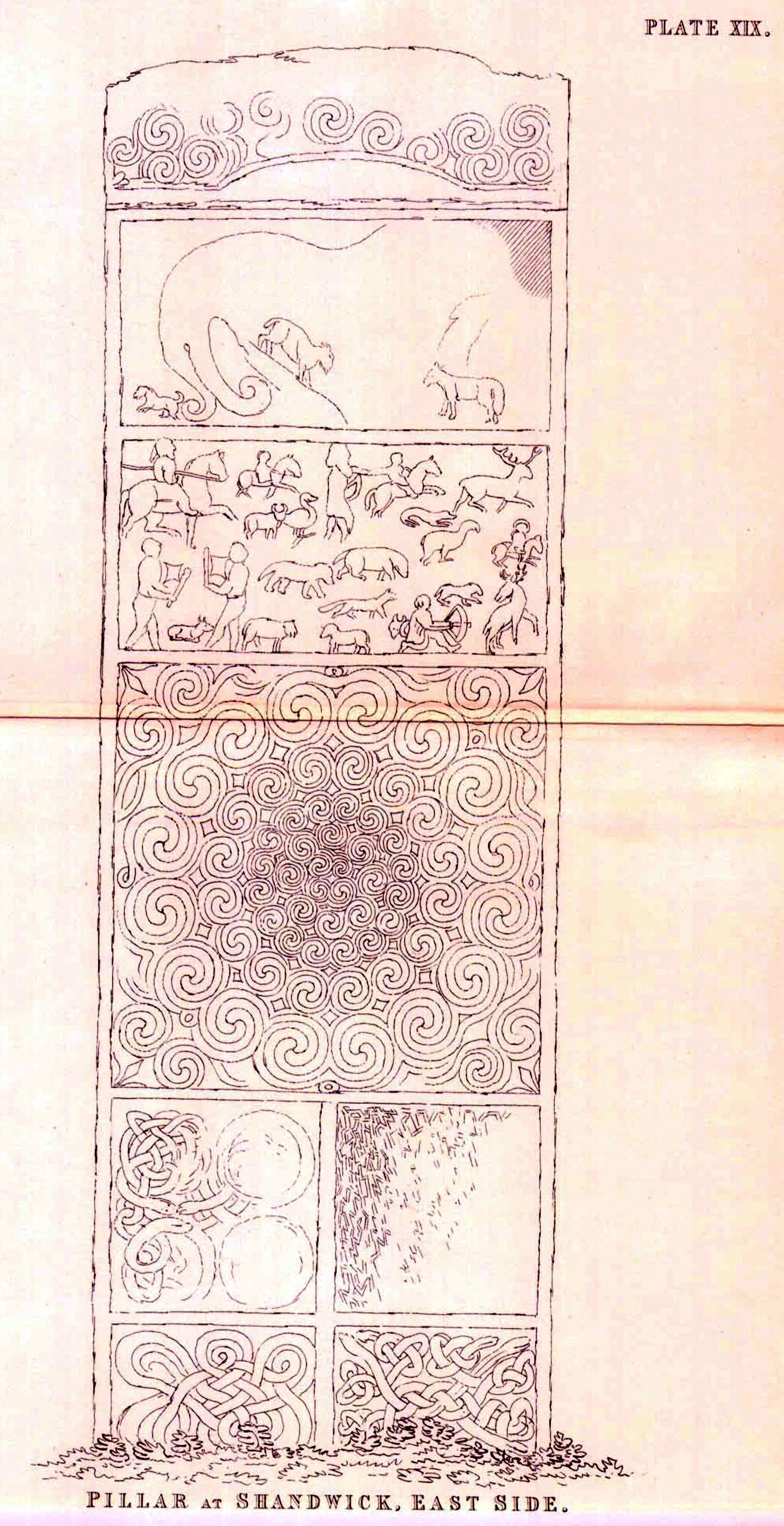 This plate is taken from "A Short Account of some Carved Stones in Ross-shire, accompanied with a series of Outline Engravings" by Charles Carter Petley and published in in Archaeologia Scotica, vol IV (1857) Description.